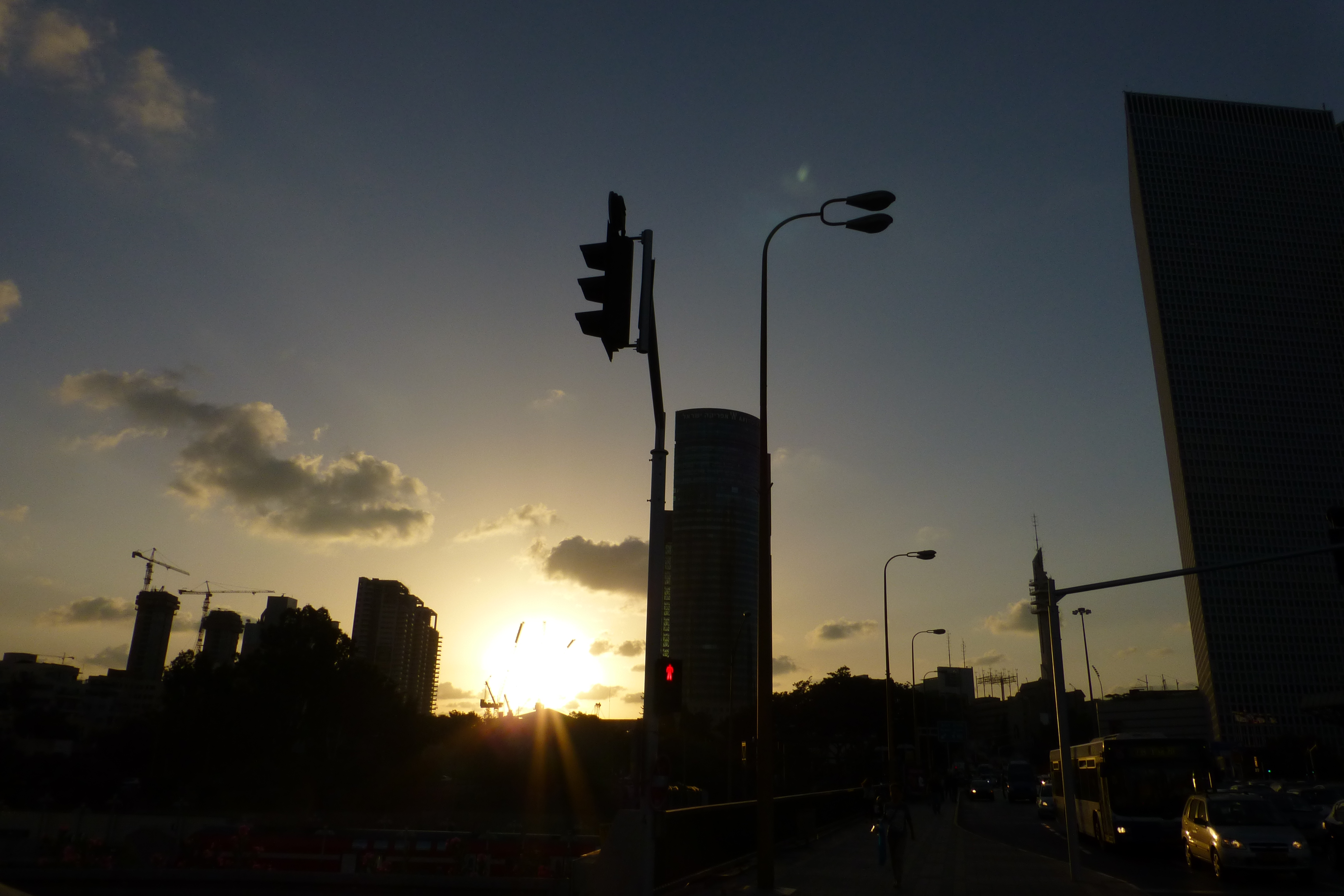 Azriely Towers